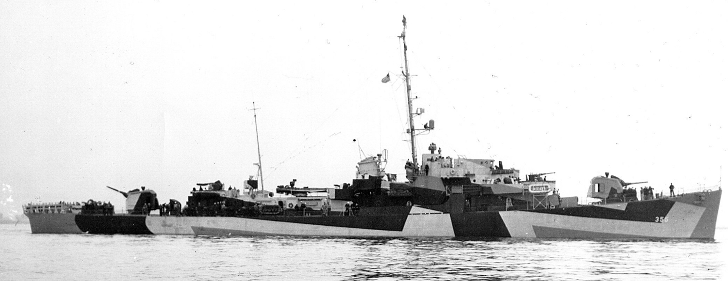 The U.S. Navy destroyer escort USS Jaccard (DE-355) off Boston, Massacchusettes (USA), on 28 September 1944. She is wearing Camouflage Measure 32, Design 3D. The colors are dull black (BK), ocean gray (5-O) and light gray (5-L).